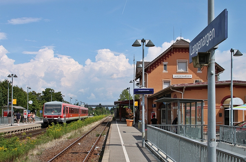 Langenargen: train station with a DB Class 628.